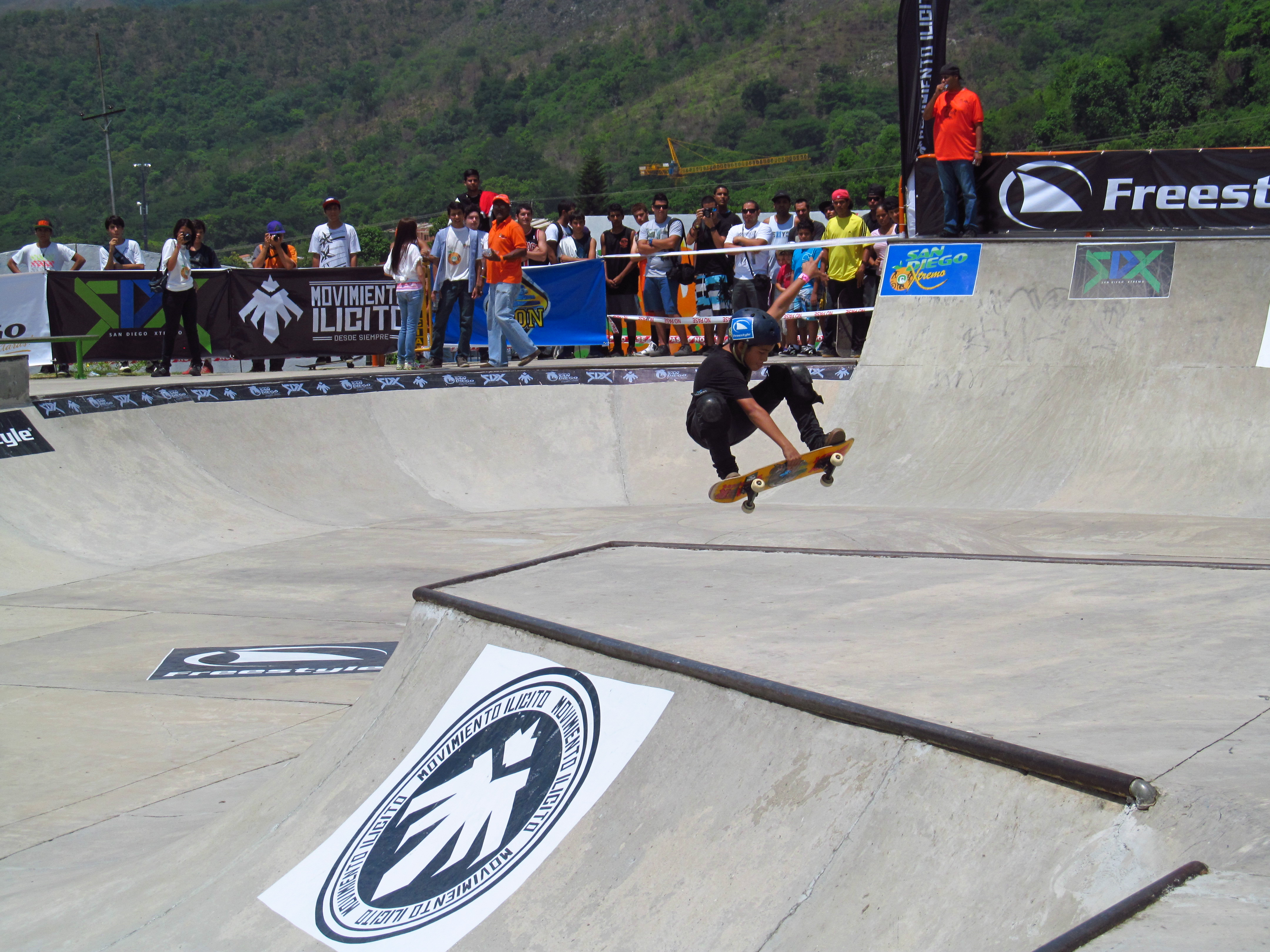 Skate Park San Diego Edo. Carabobo